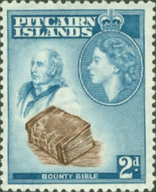 Pitcairn 1957 03